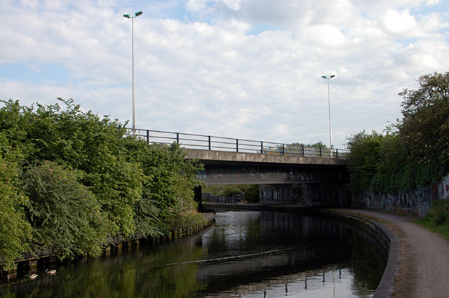 Birmingham & Warwick Junction Canal goes beneath the Heartlands Spine Road